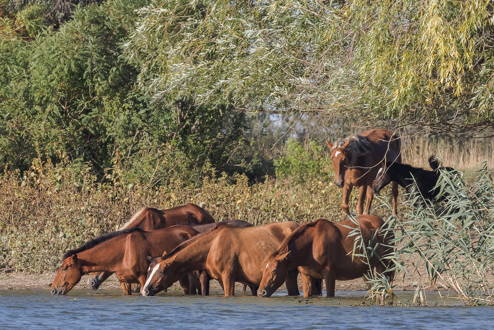 This is an image of the Biosphere Reserve or a Geopark: Astrakhan Nature Reserve